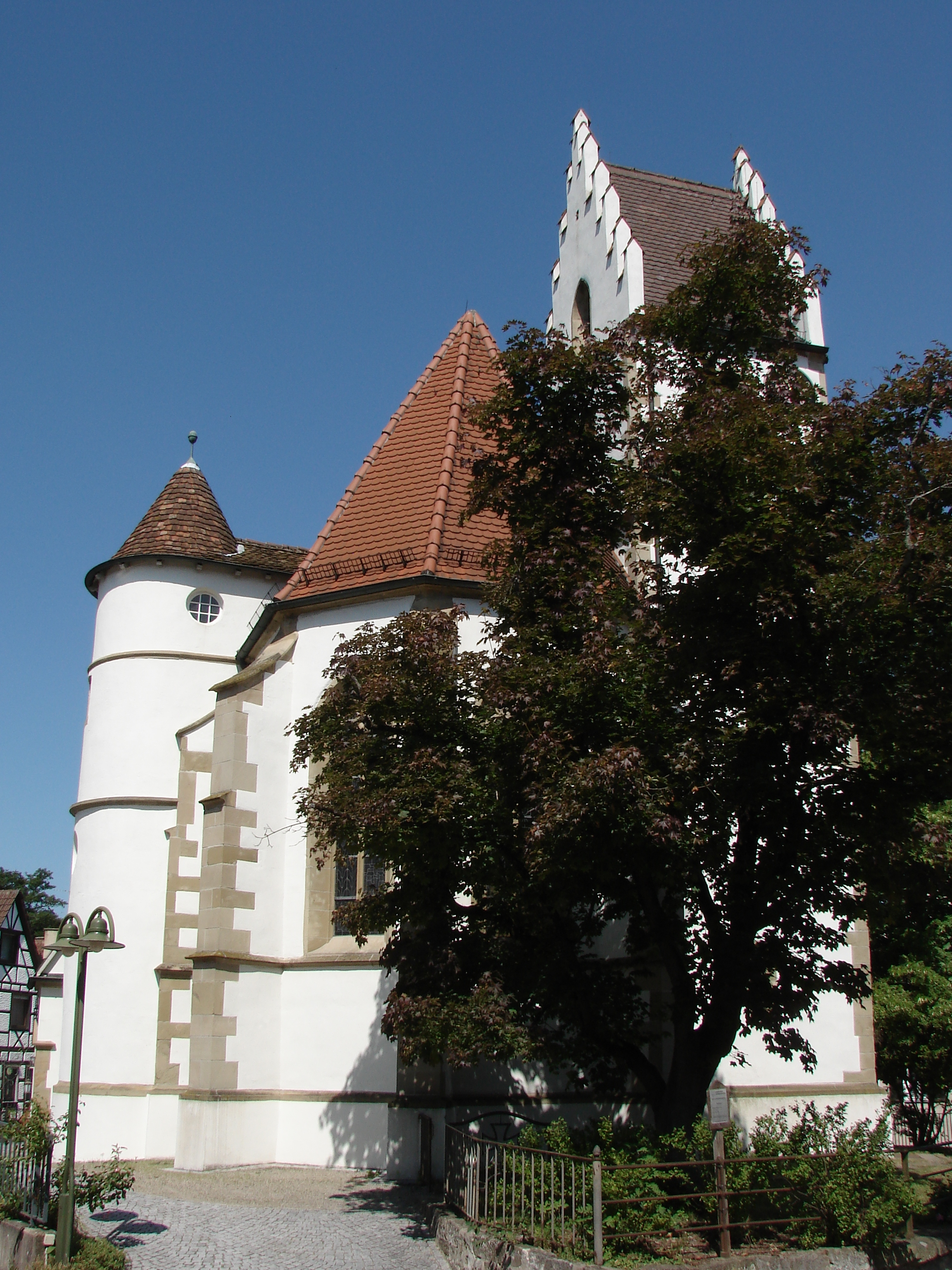 Steinheim an der Murr, village of Kleinbottwar: Protestant St. George's church